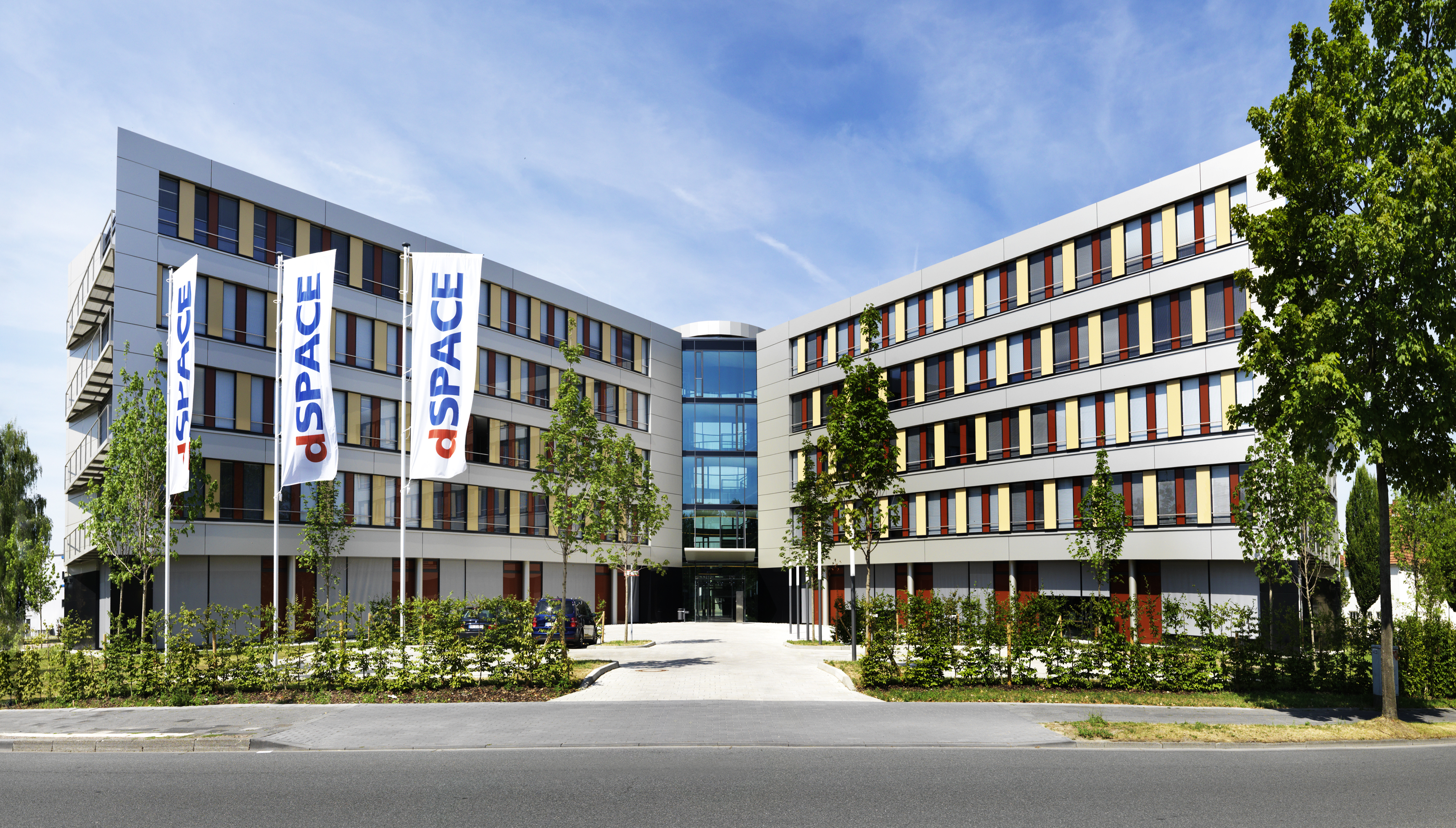 dSPACE - NEW Company Headquarter